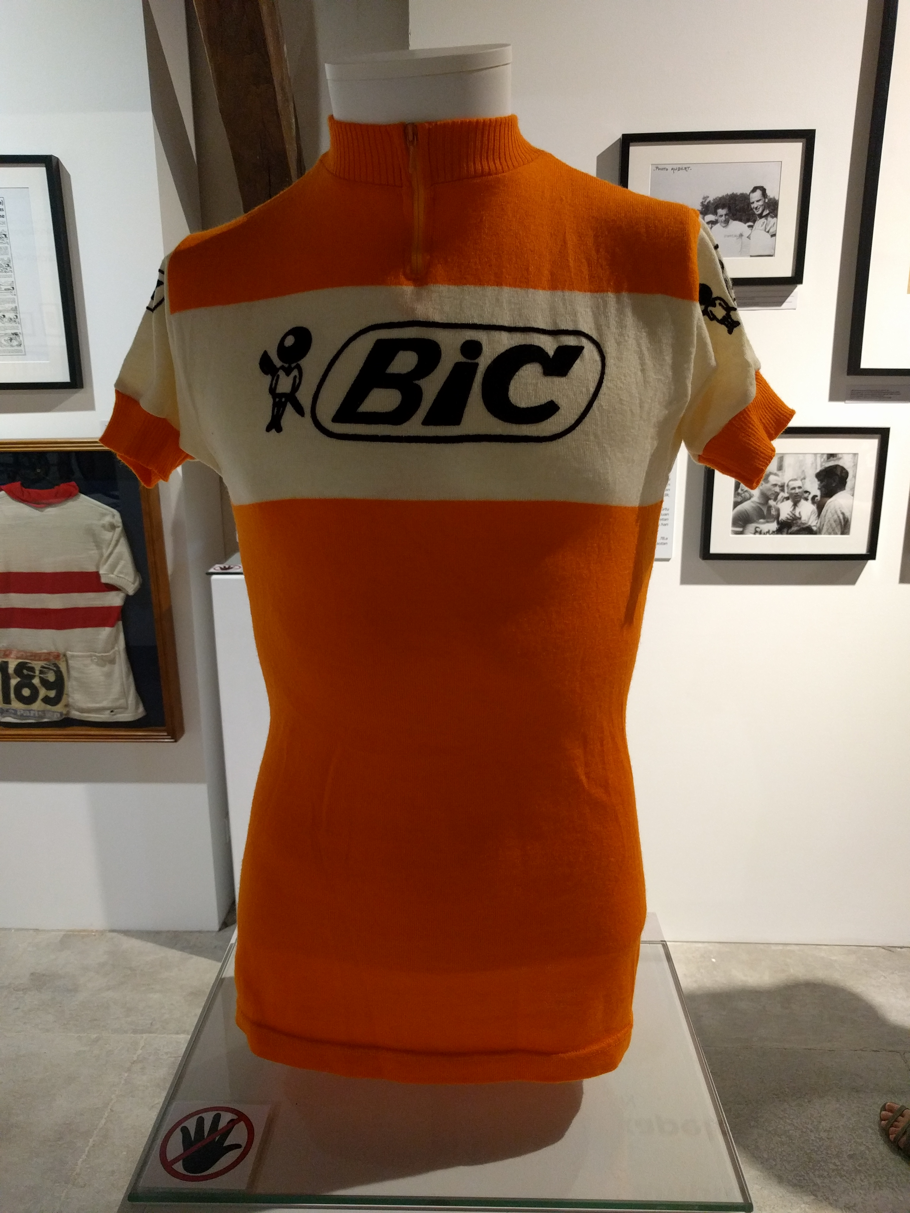 Jersey from Bic Team, Luis Ocaña